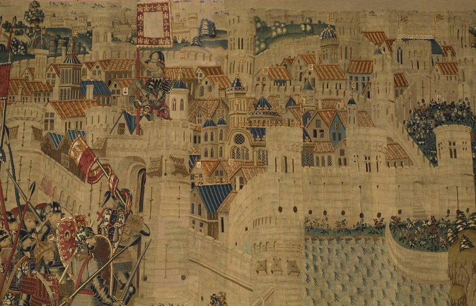 Gothic tapestry probably produced under the direction of Passchier Grenier, tapestry merchant, The Conquest of Tangier, (detail) c. 1471-1475, wool and silk tapestry, 400 x 1082 cm, Collegiate Church of Our Lady of the Assumption, Pastran